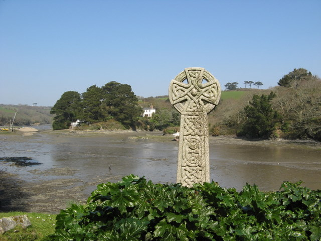 Celtic cross in the churchyard of St Just in Roseland, near to St Just in Roseland, Cornwall, Great Britain.